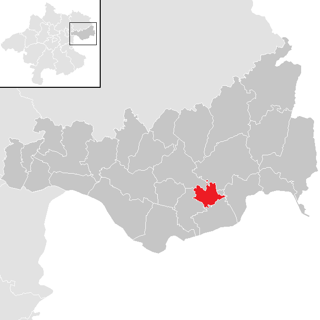 district Perg